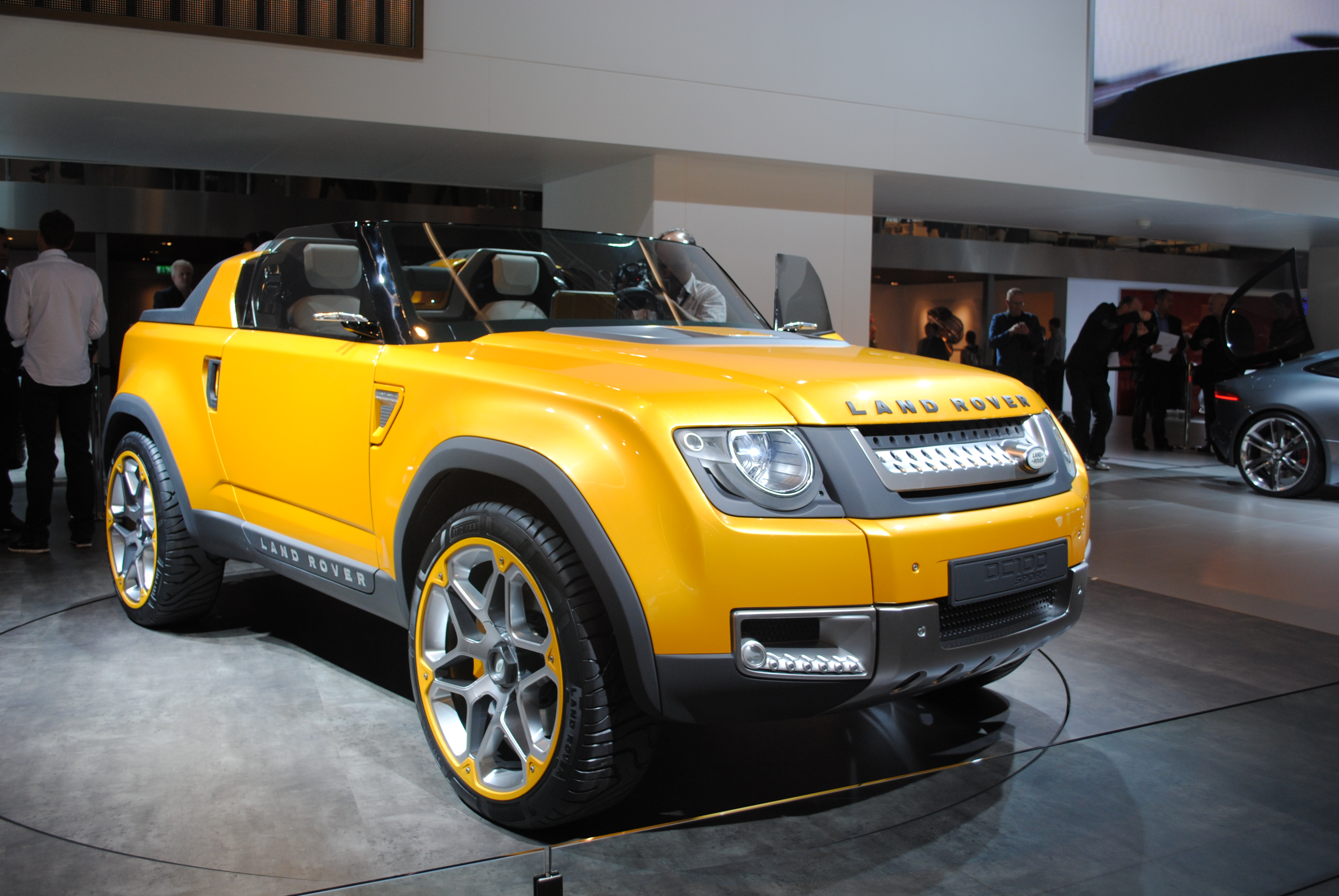 More photos and info